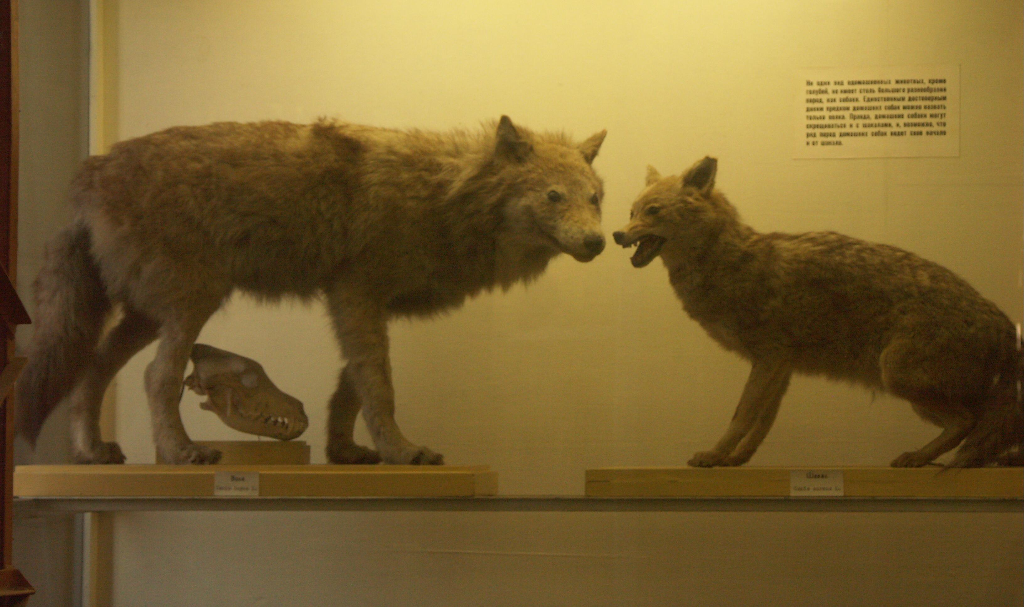 Stuffed wolf and golden jackal at the Zoological Museum of the Zoological Institute of the Russian Academy of Sciences